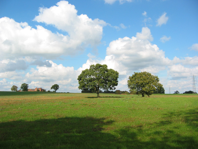 Pasture at Blakenhall. The pylons on the right are part of a major powerline running broadly east-west through this gridsquare. The farm in the distance is probably West View. View north east from the east side of the hamlet, near the former chapel